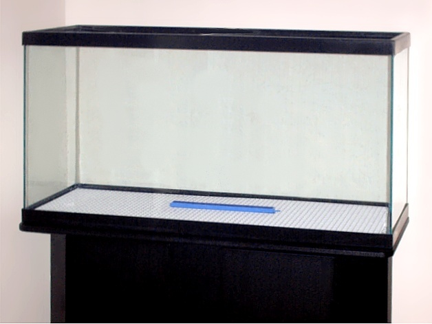 Empty aquarium